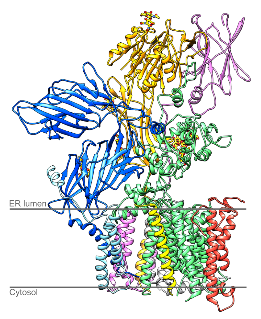 Structure of the yeast oligosaccharyltransferase complex based on the 6ezn PDB coordinates.